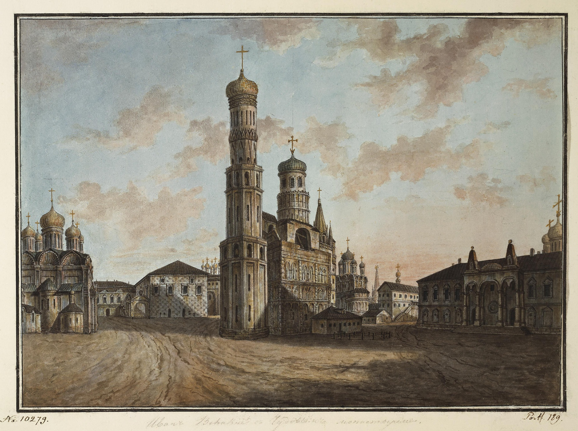 en: Fedor Alekseev Title